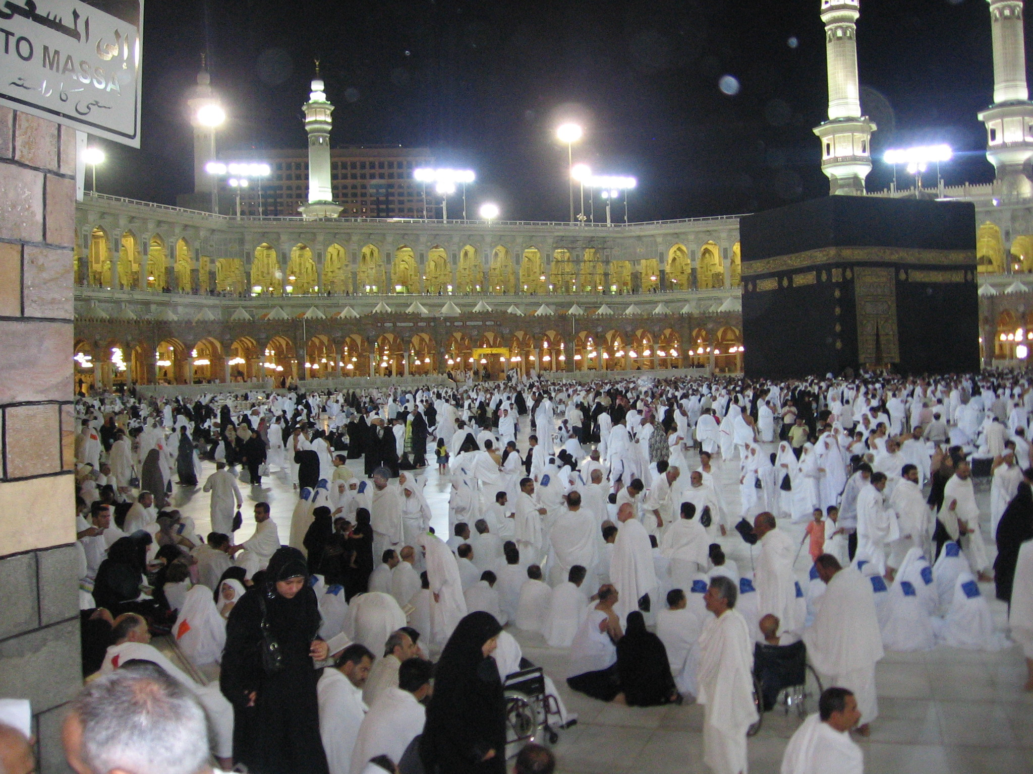 Masjid al-Haram in mecca Saudi Arabia